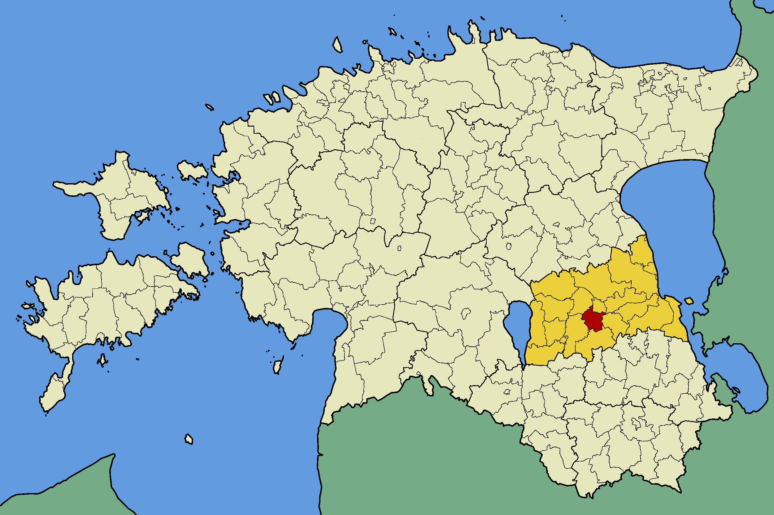 Map of Estonia with borders of municipalities (parishes). Tartu county and Ülenurme municipality emphasized.